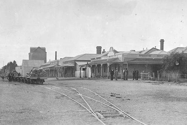 Port Broughton Hotel in 1914 This is a crop of original streetscape image to focus on the Port Broughton Hotel.